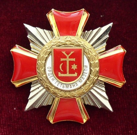 Orden getmana Mazepa